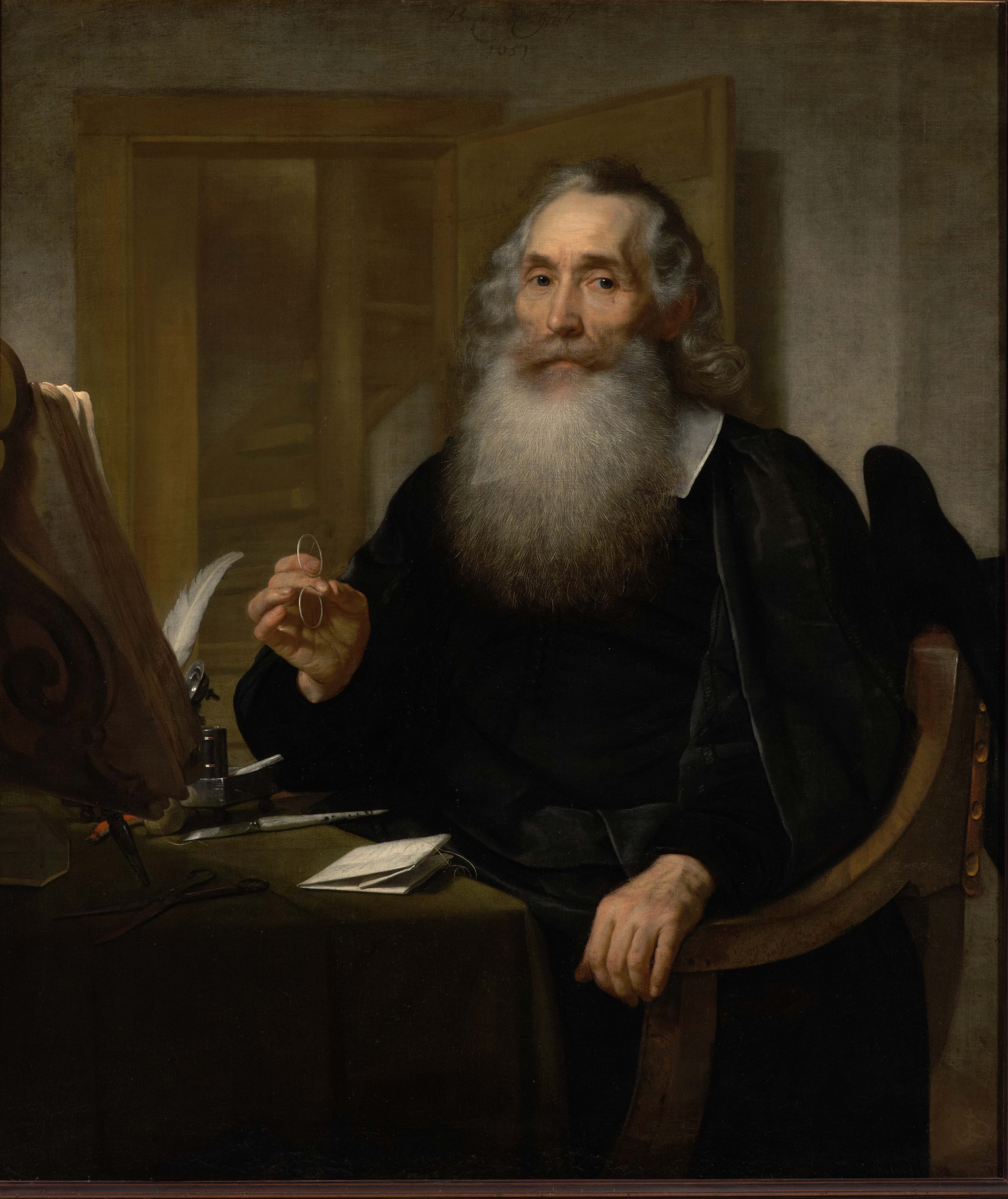 This image is available from the Netherlands Institute for Art Historyunder digital ID 11711. This tag does not indicate the copyright status of the attached work. A normal copyright tag is still required. See Commons:Licensing.